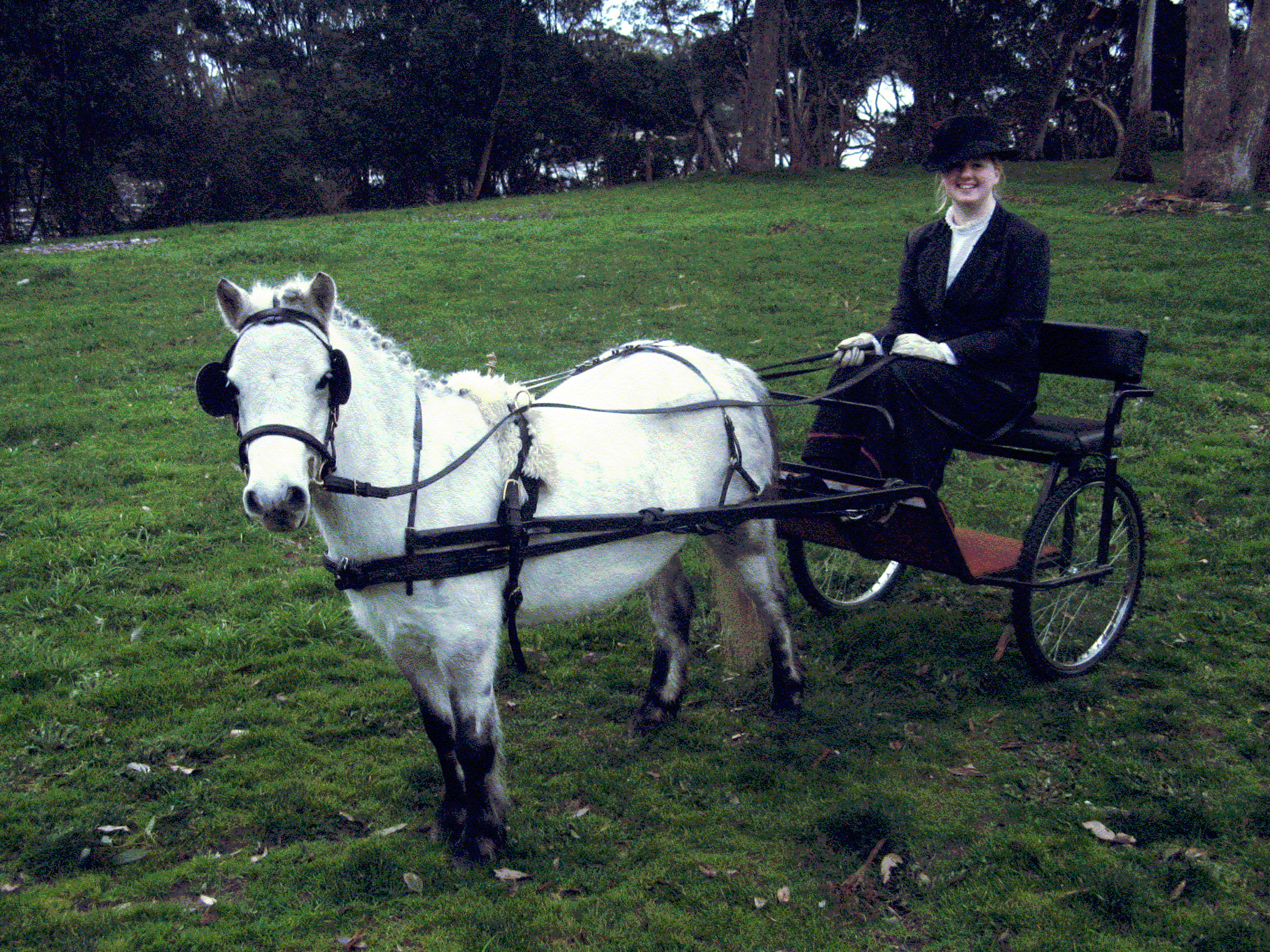 Shetland Pony in Harness at a Carriage Driving event in Australia